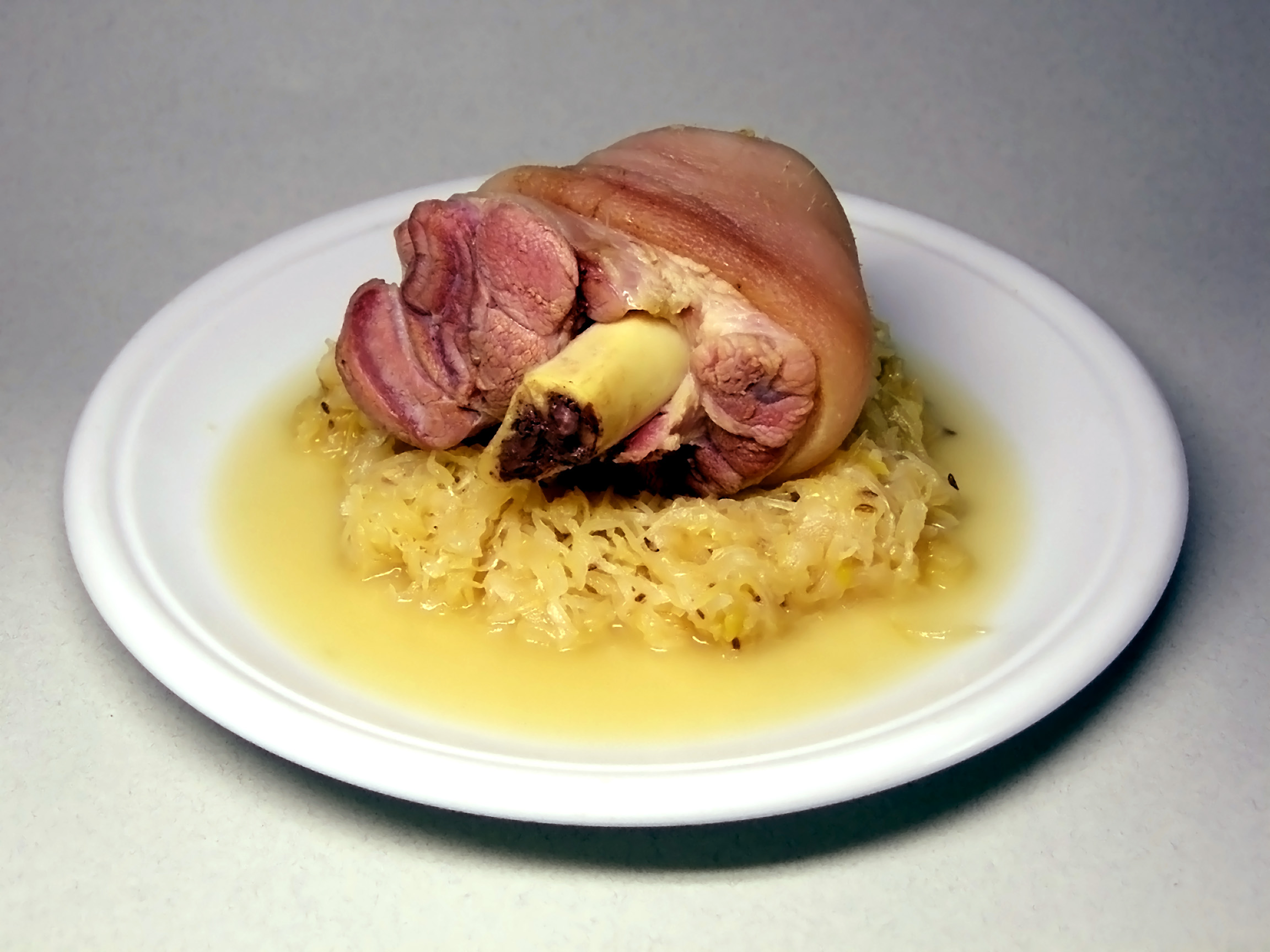 Pickled Eisbein, with Sauerkraut. Eisbein is heavily marbled meat covered with a thick layer of fat.